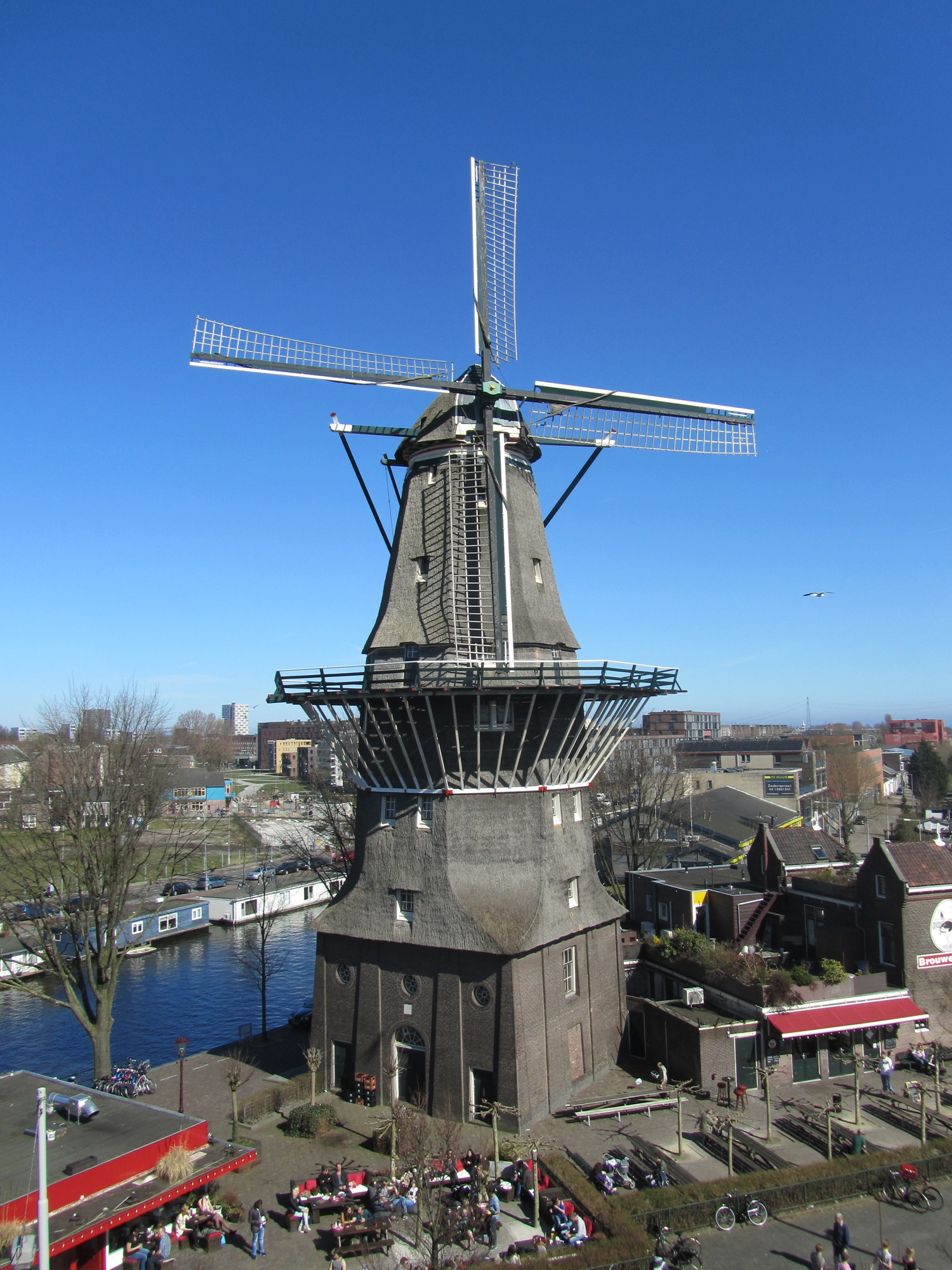 Looking east towards windmill De Gooyer at Funenkade in Amsterdam. De Gooyer is a so-called tower mill, a type of windmill built on top of a pedestal to raise it above the surrounding buildings. The beer brewery Brouwerij 't IJ is housed in the adjacent building, a former bathhouse.